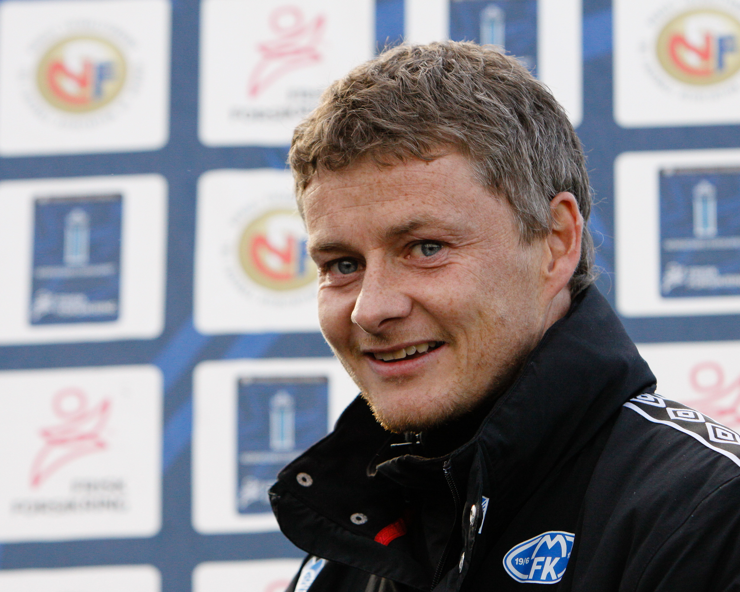 Taken after the football match between Tiller and Molde (which Solskjær coaches).